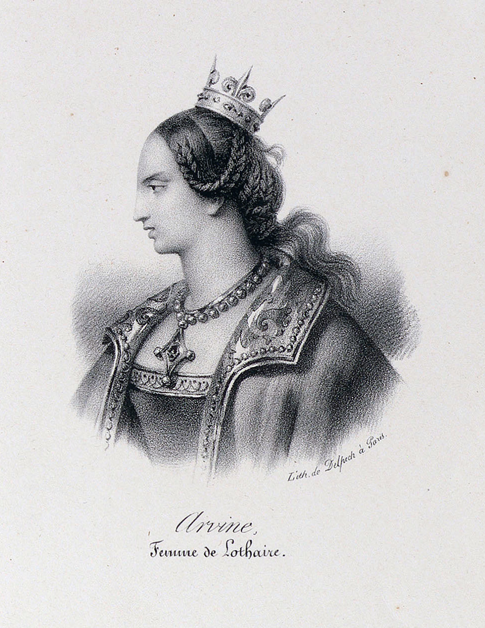 imaginary portrait of Emma of Italy, wife of King Lothair of France